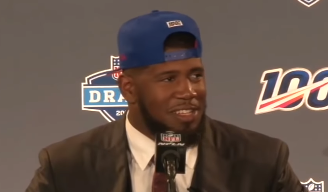 Ed Oliver in 2019